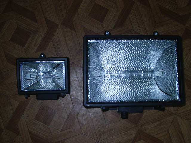 Два прожектора